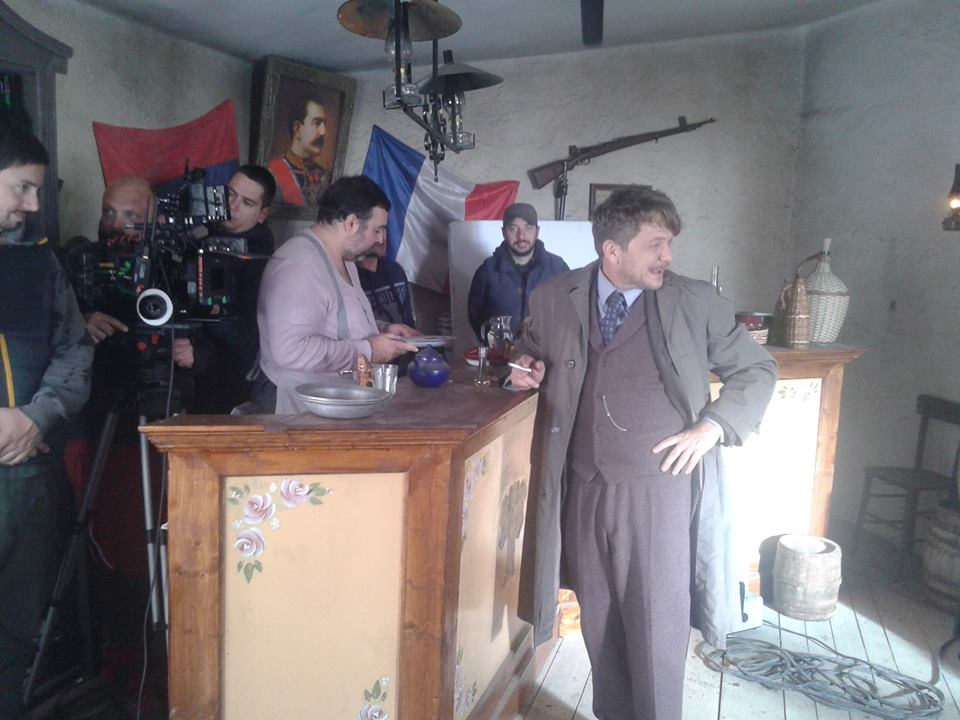 Serbian actors Miloš Samolov i Dragan Bjelogrlić on the set of TV series "Shadow over Balkans".